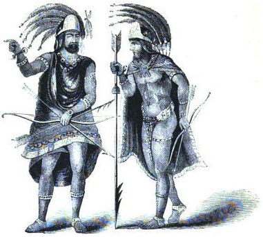 This drawing is on the page directly after page 98 in the book, but before page 99. This drawing is over the drawing of the display of Aztec armaments and armor that had the caption "Aztec costumes and arms" below it. Since there was no separate caption for this drawing, the "Aztec costumes and arms" caption appears to be applying to both this drawing and the other drawing.